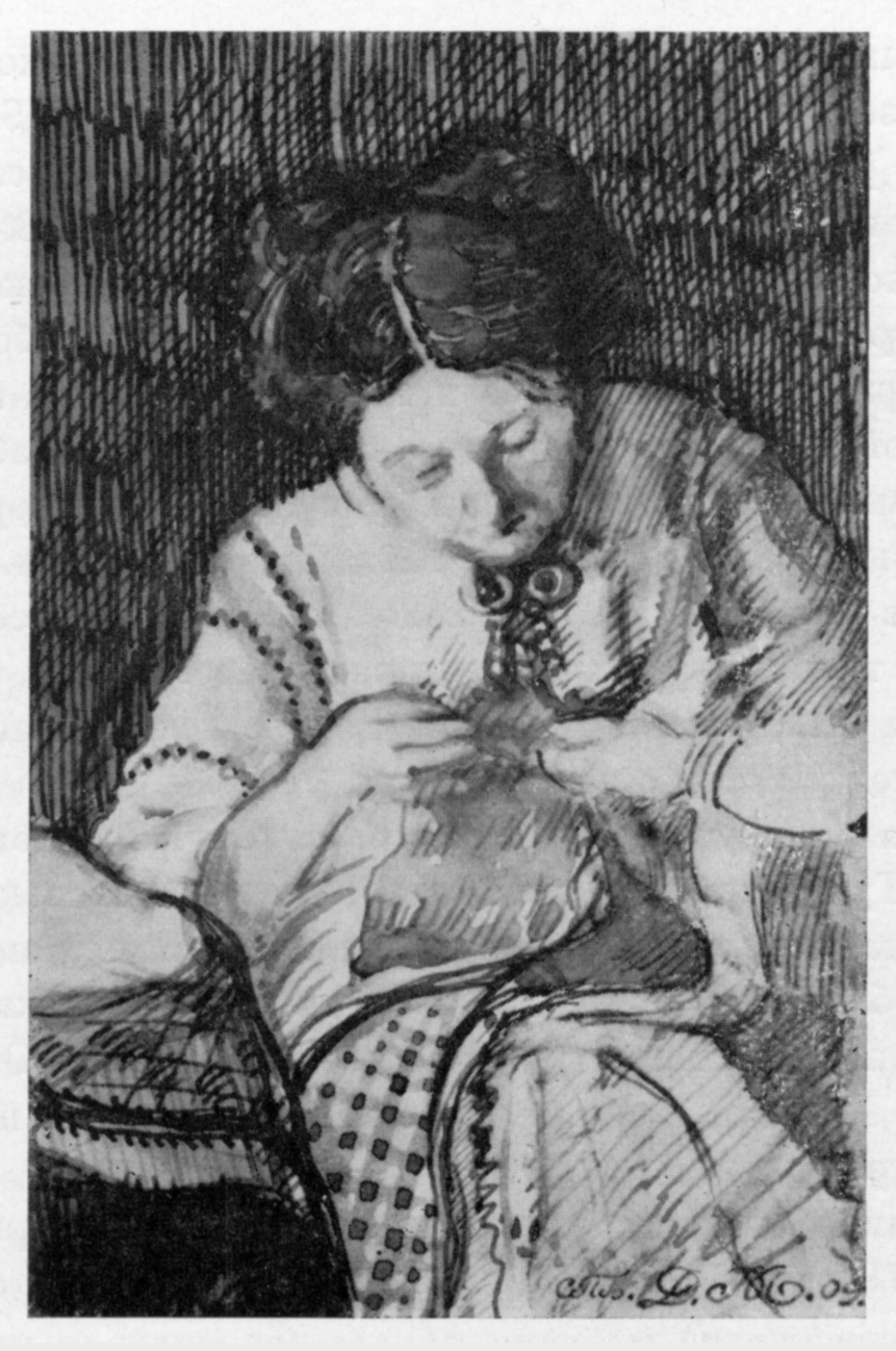 D.Mitrohin. A.J.Brusketti. 1909. Ink